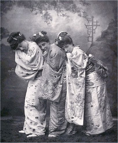 1885 photo of Sybil Grey, Leonora Braham and Jessie Bond in The Mikado. This image is in the public domain.